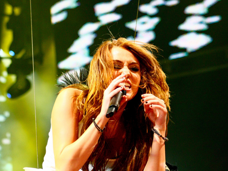 Miley Cyrus during the wonder world Concert in Detroit, Michigan.